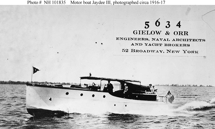 The motorboat Jaydee III prior to her United States Navy service as the patrol vessel .